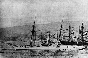 Chilean schooner "Covadonga", ex Spanish "Virgen de Covadonga" (1860-1880)